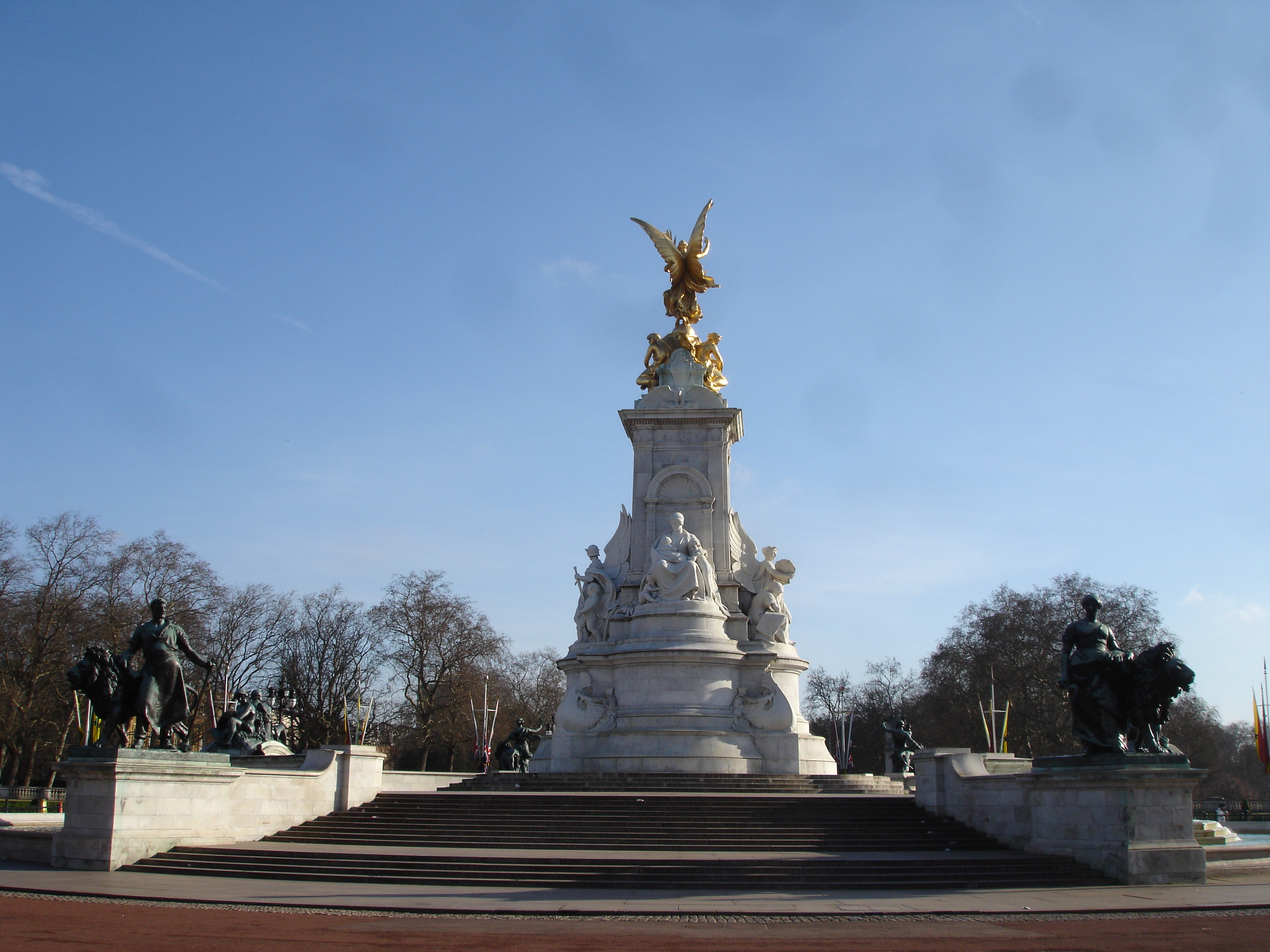 Victoria Memorial (London). Own Work. 2007